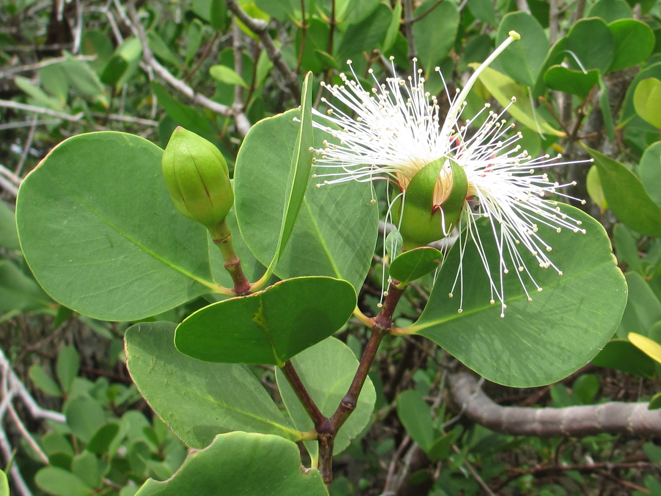 A common constituent of mangroves. Pemba bay in northern Mozambique.